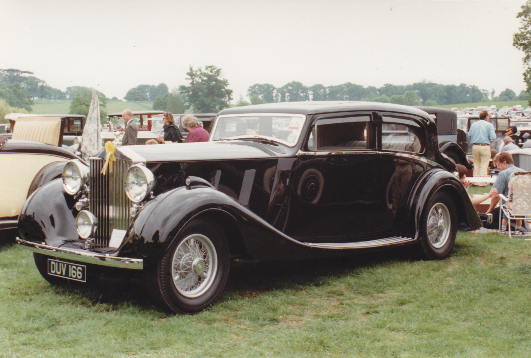 Rolls-Royce Phantom III, #3AX143, by Arthur Mulliner, 1936. RREC Annual Rally 1993 tidied with Photoshop